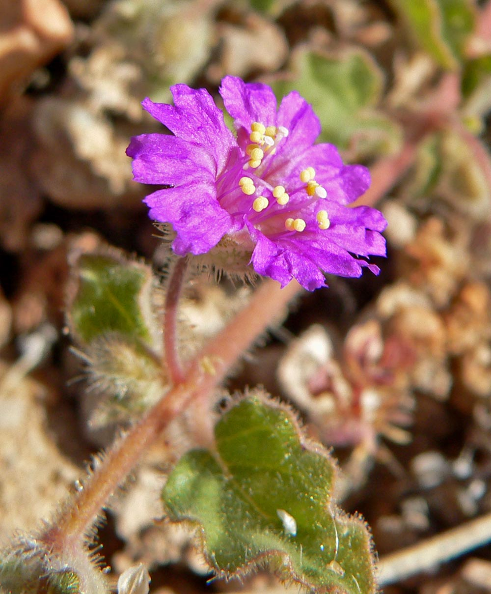 Photo of Allionia incarnata just outside Red Rock Canyon, Nevada